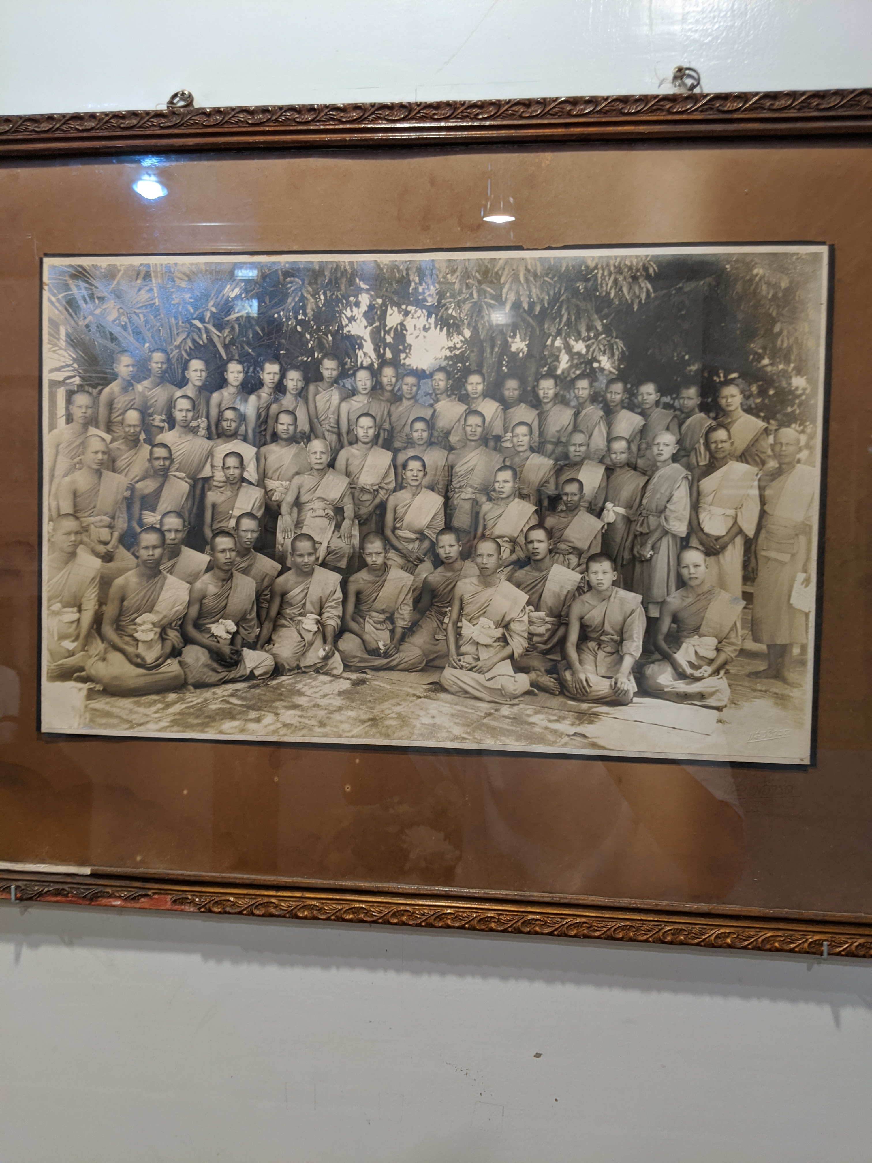 photograph of luang pu sodh with his monks